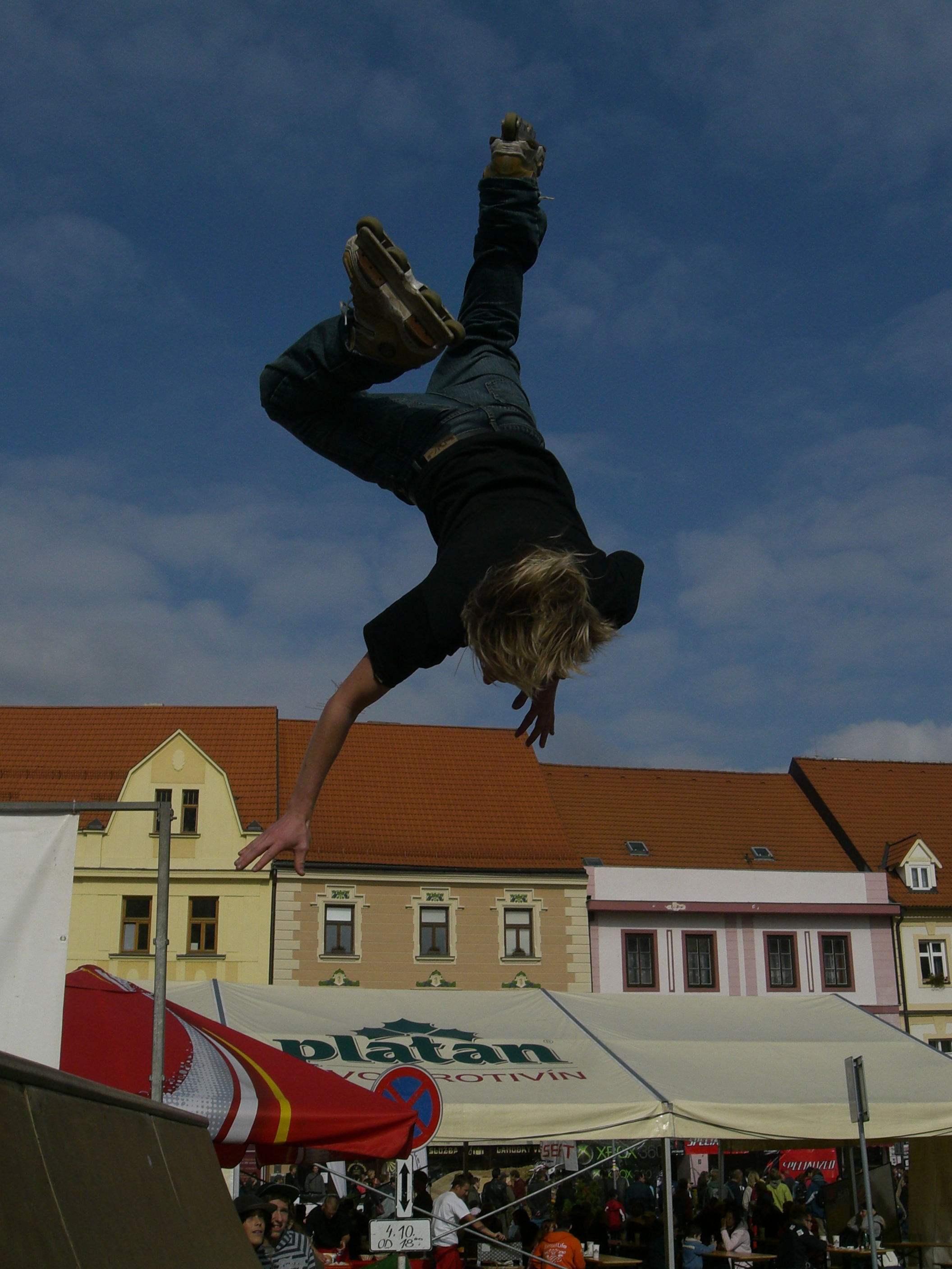 Exhibition of aggressive inline skating in Písek city, Czech Republic